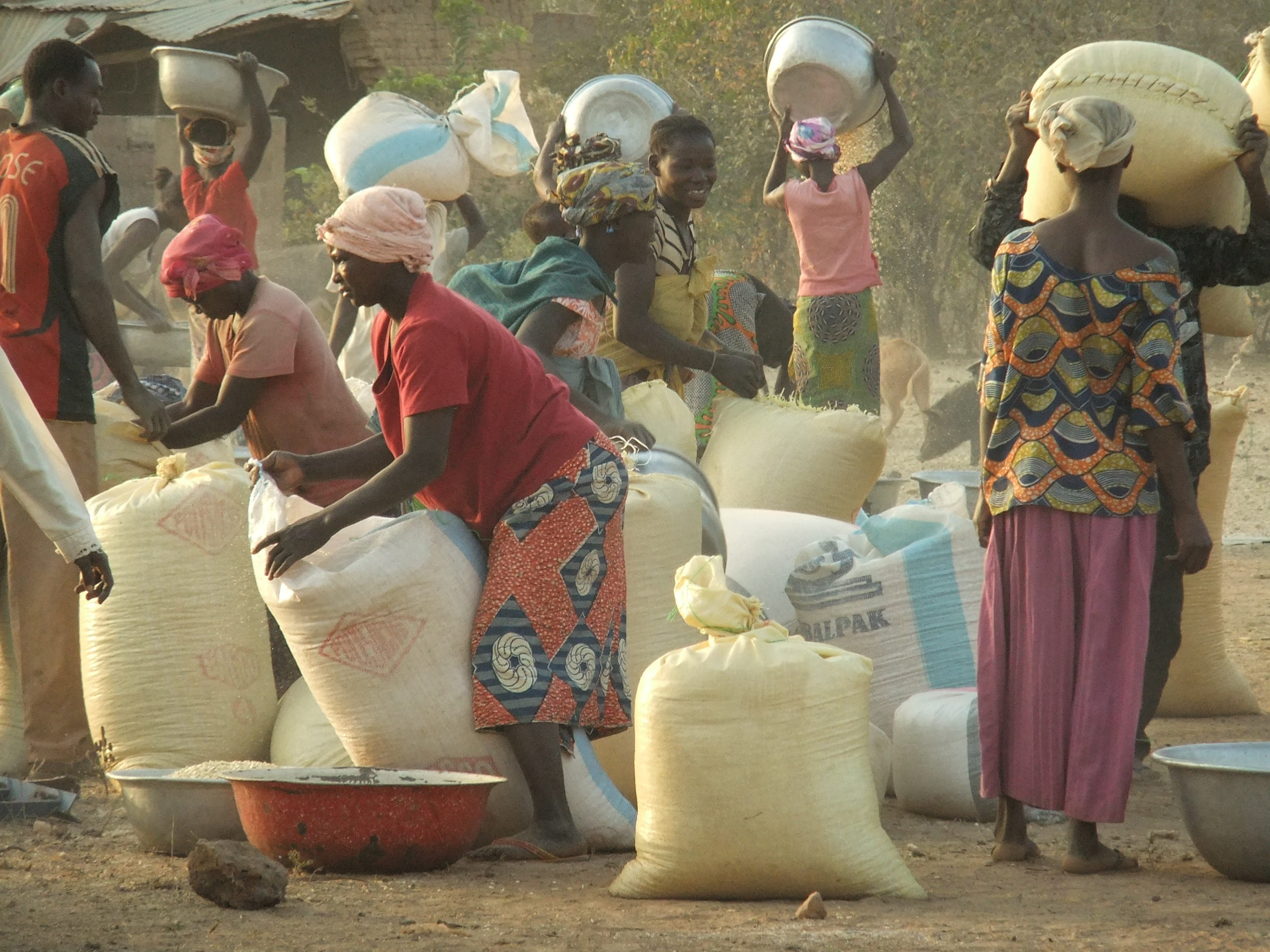 Mamou, Burkina Faso Loading to sent to the Government's warehouses yearly cache This is an image of "African people at work" from Burkina Faso